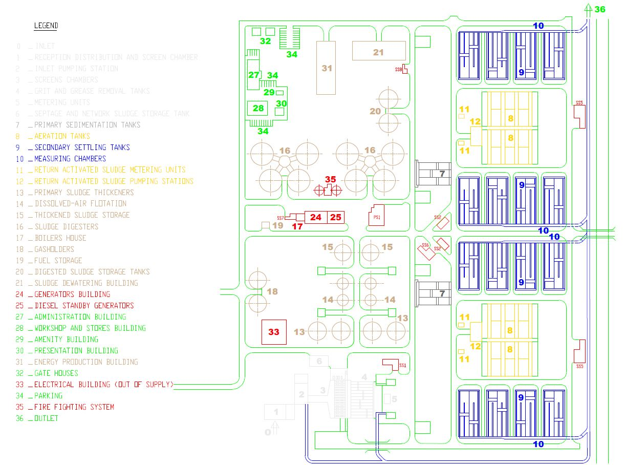 Waste water treatment diagramm